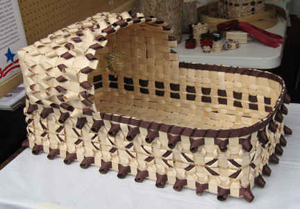 Black ash baby basket with sweetgrass turtle, made by Odawa-Ojibwe artists Kelly Church of Michigan